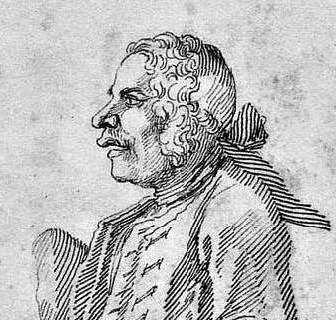 Geminiano Giacomelli, drawing by Pier Leone Ghezzi